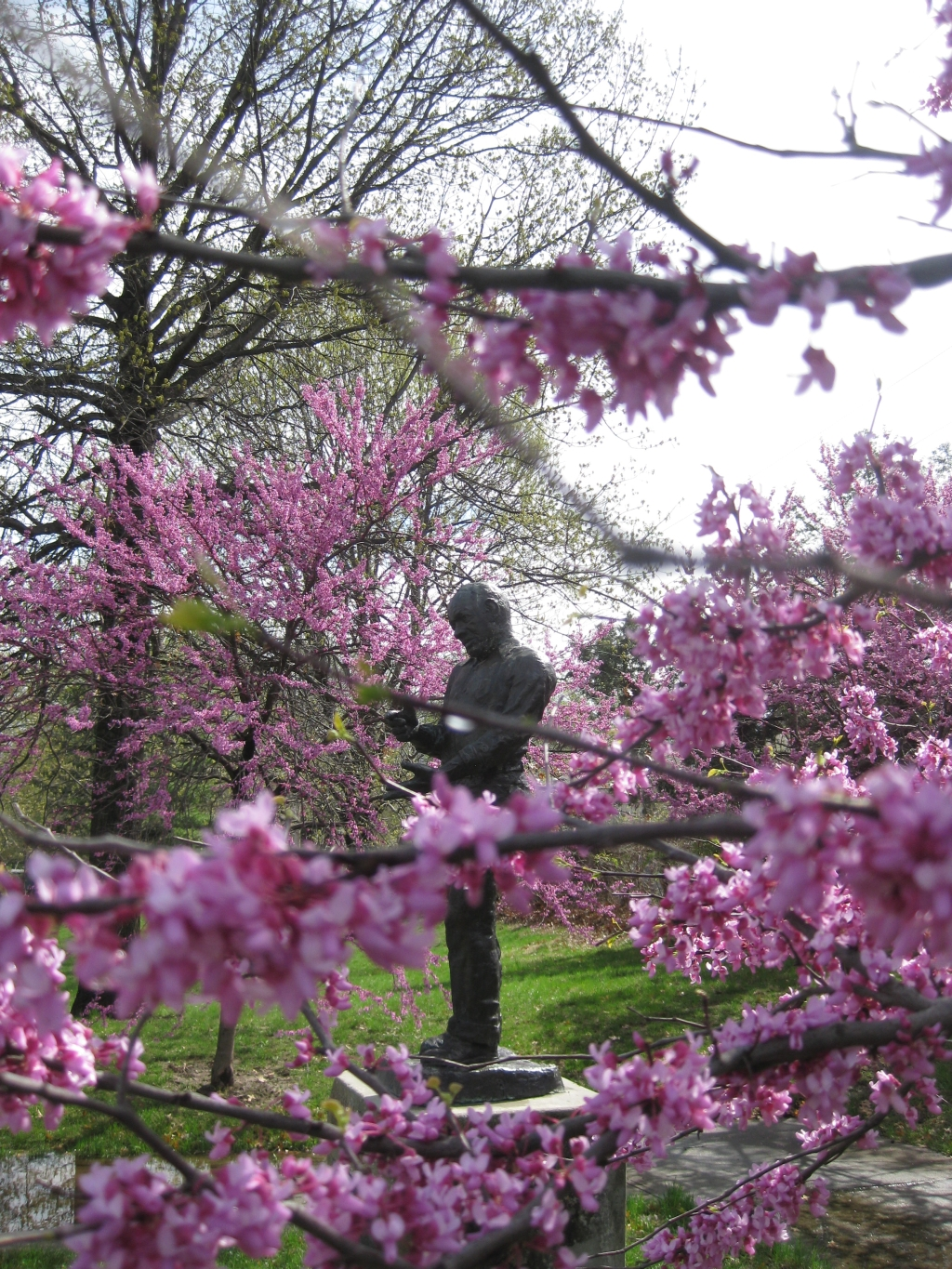 Photo of Statue at Leon M. Jordan Memorial Park in Kansas City, Missouri, March, 2012.